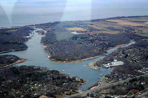 Mattituck Inlet. The Mattituck Inlet is the only Federal waterway between Port Jefferson and Greenport on Long Island, New York. Located in the Town of Southold, the Mattituck Inlet is a deep water navigable inlet that opens on Long Island Sound, providing safe harbor for commercial and private crafts.